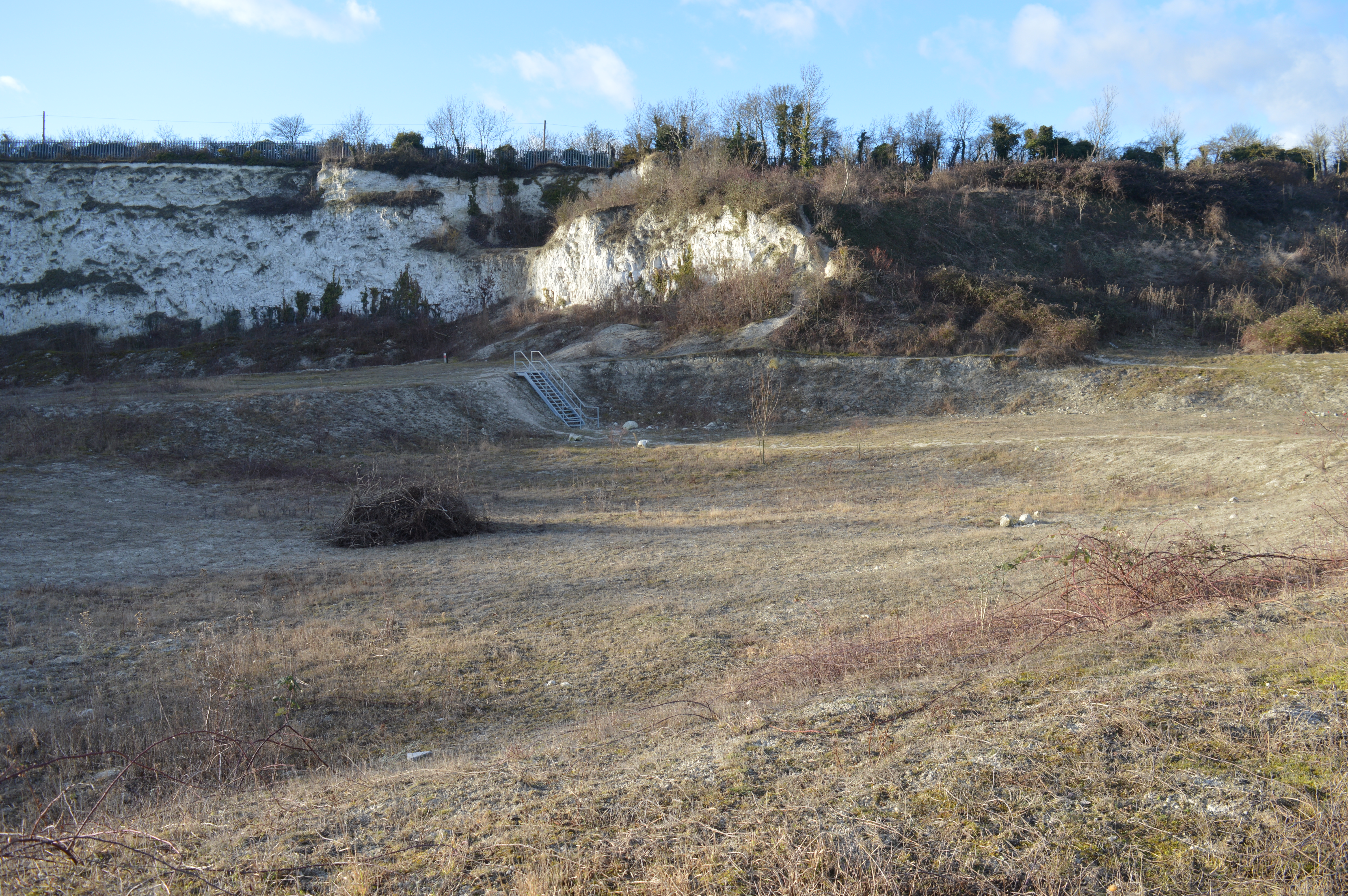 East Pit is a disused chalk quarry south of Cambridge. Together with West Pit, it is part of the Cherry Hinton Pit Site of Scientific Interest, and together with Limekiln Close it is part of the Limekiln Close and East Pit Local Nature Reserve, which is managed by the Wildlife Trust for Bedfordshire, Cambridgeshire and Northamptonshire under the name Cherry Hinton Chalk Pits.